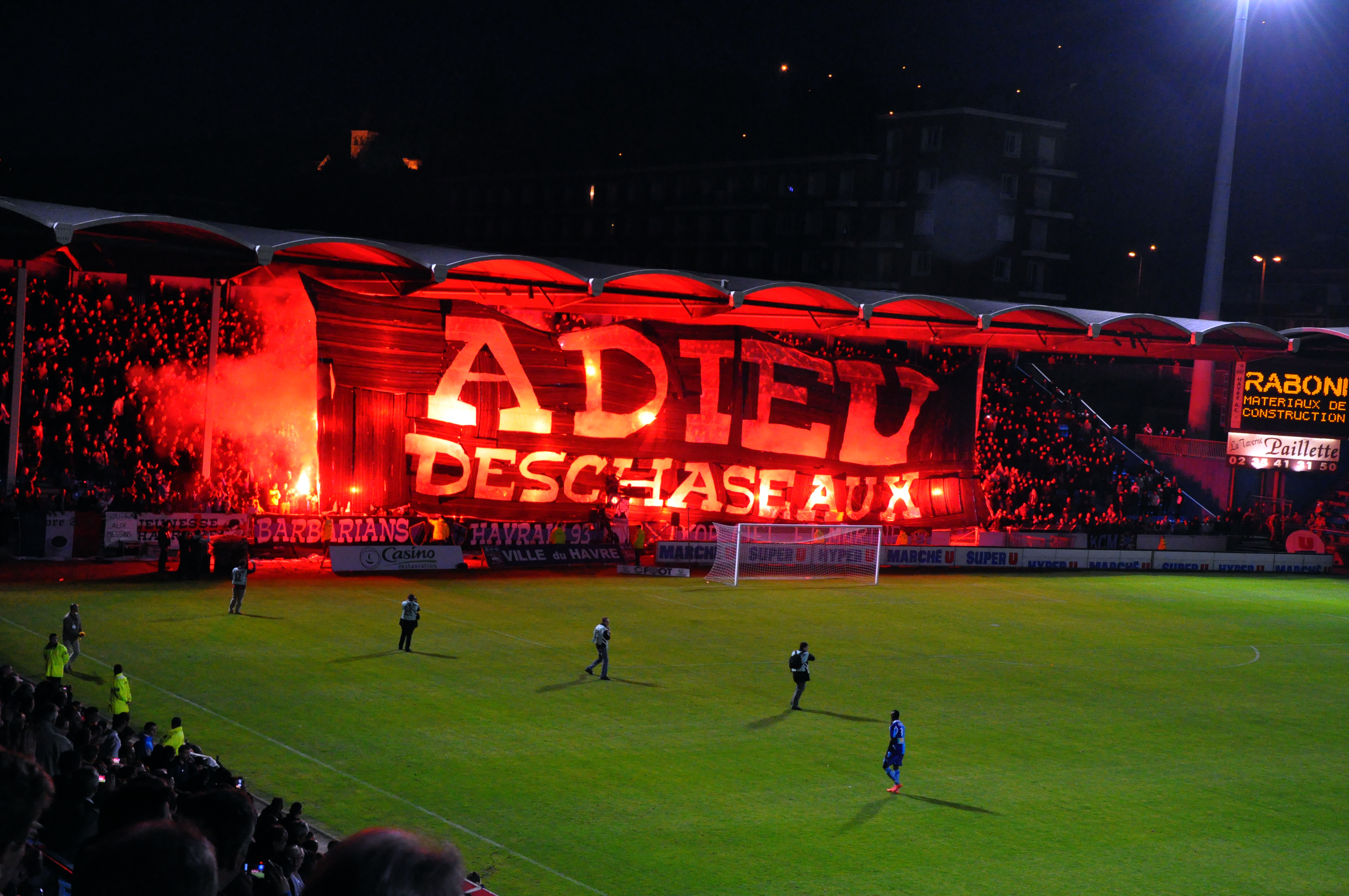 Le Havre (France, Normandy) : Last match of Havre Athlétique Club in stade Jules Deschaseaux ("bye bye Deschaseaux)"